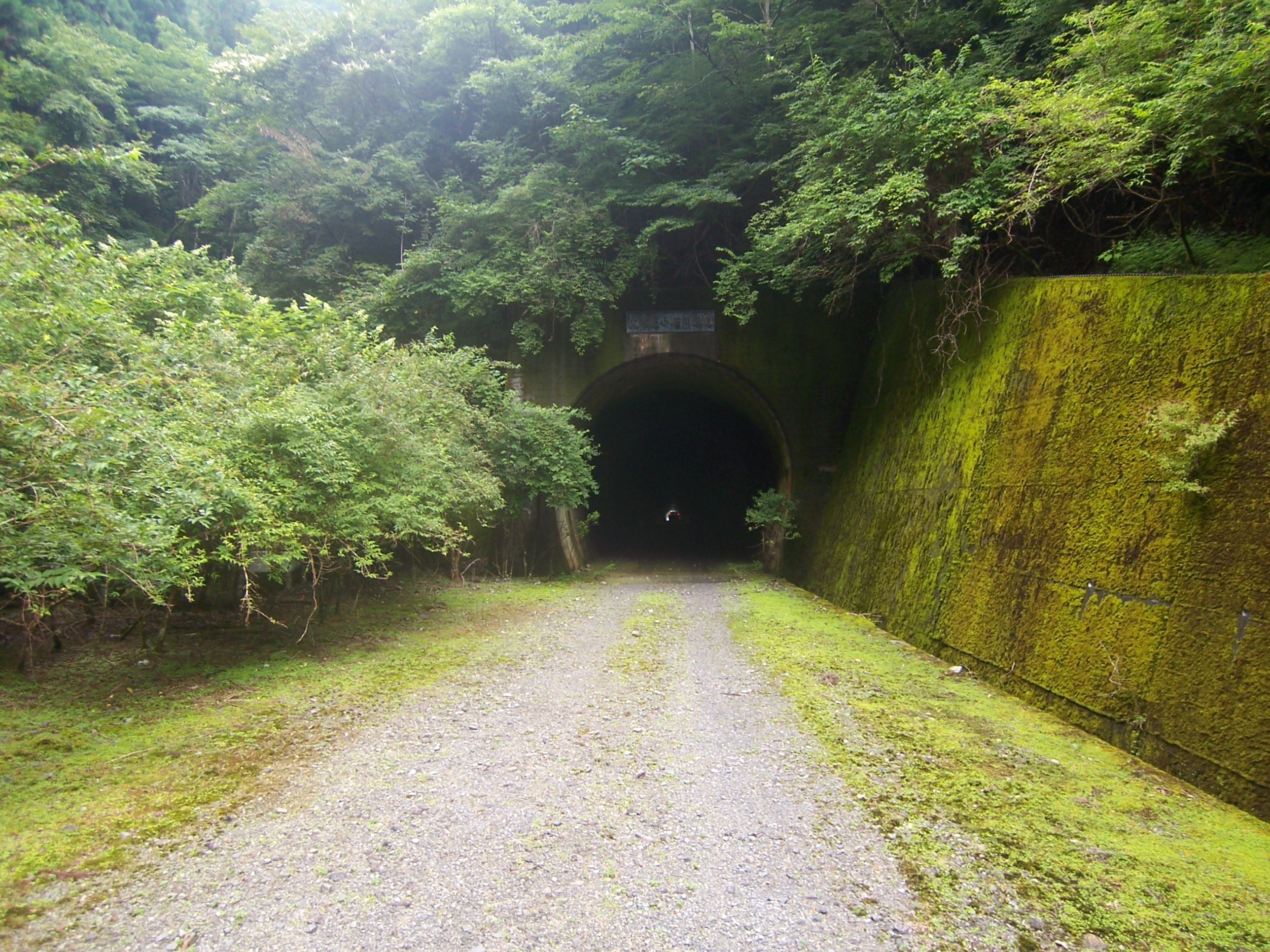 Ookiya koishigawa tunnel